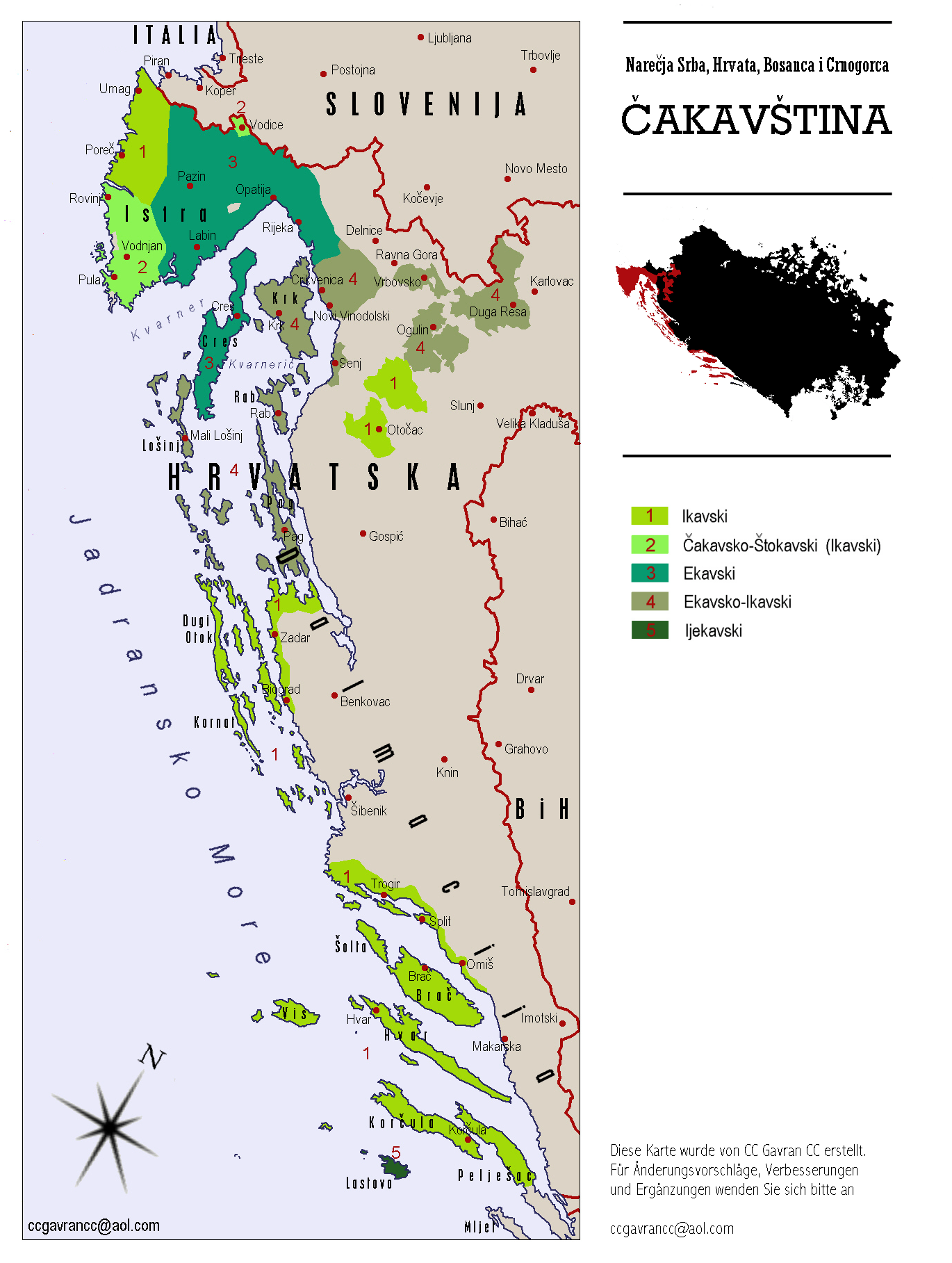 Location map of the Chakavian dialect of Croatian